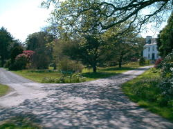 Photograph of Ardwell House and surrounding gardens